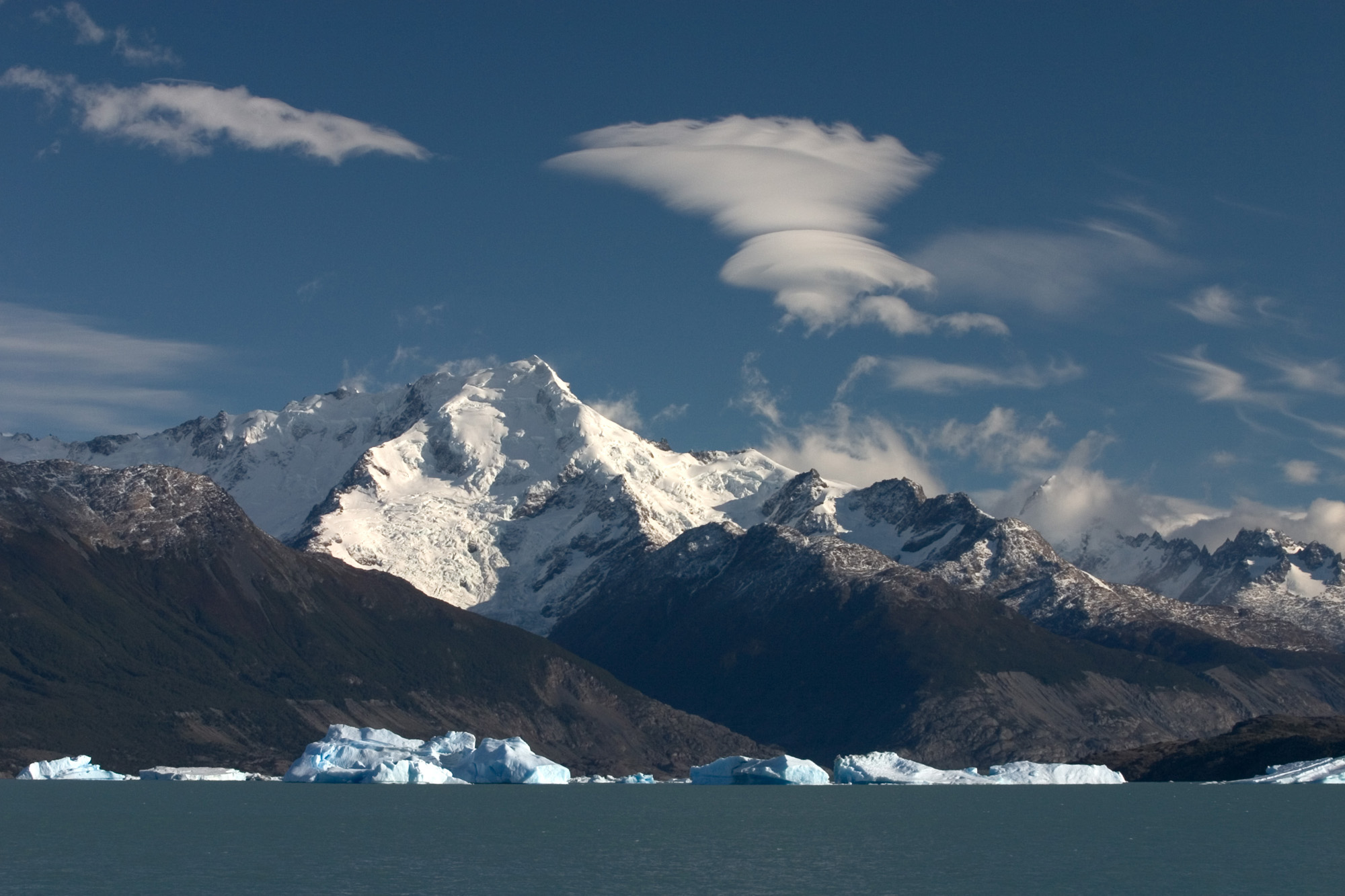 Northern arm of Lake Argentino, Patagonia region, Argentina.